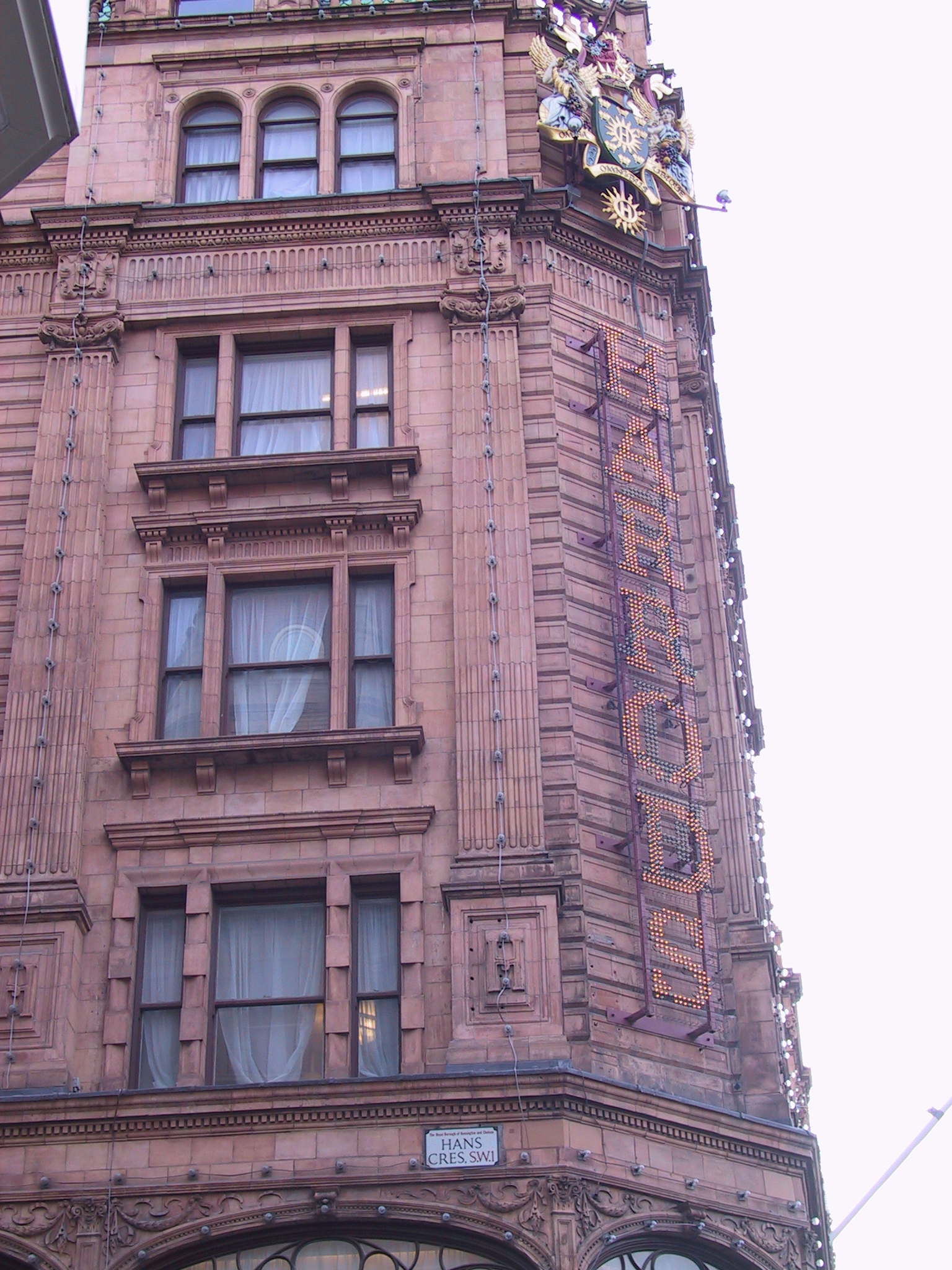 Harrods without Royal Warrents - Entrance at Hans Crescent and Brompton Road - London self photographed at 27. Dec. 2004 by Der Bruzzla